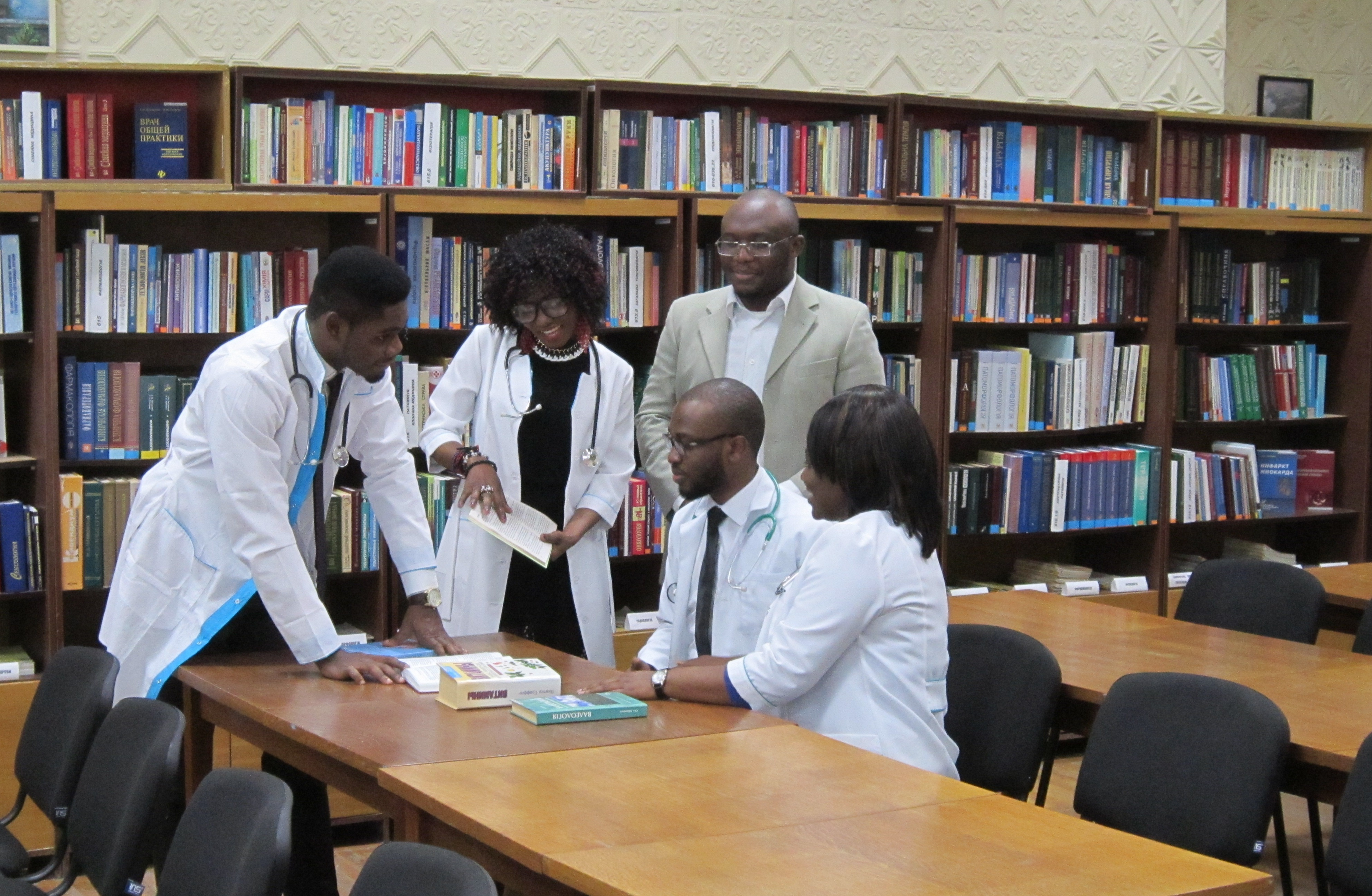 Медична бібліотека Сумського державного університету